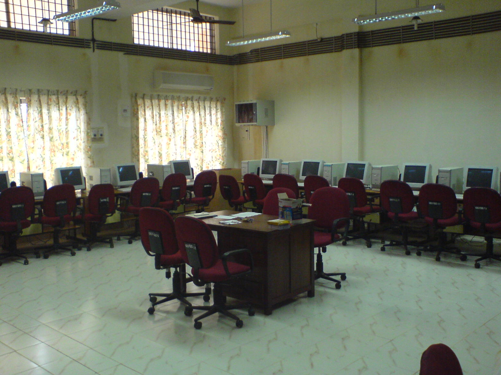 GEC Idukki Computer Lab